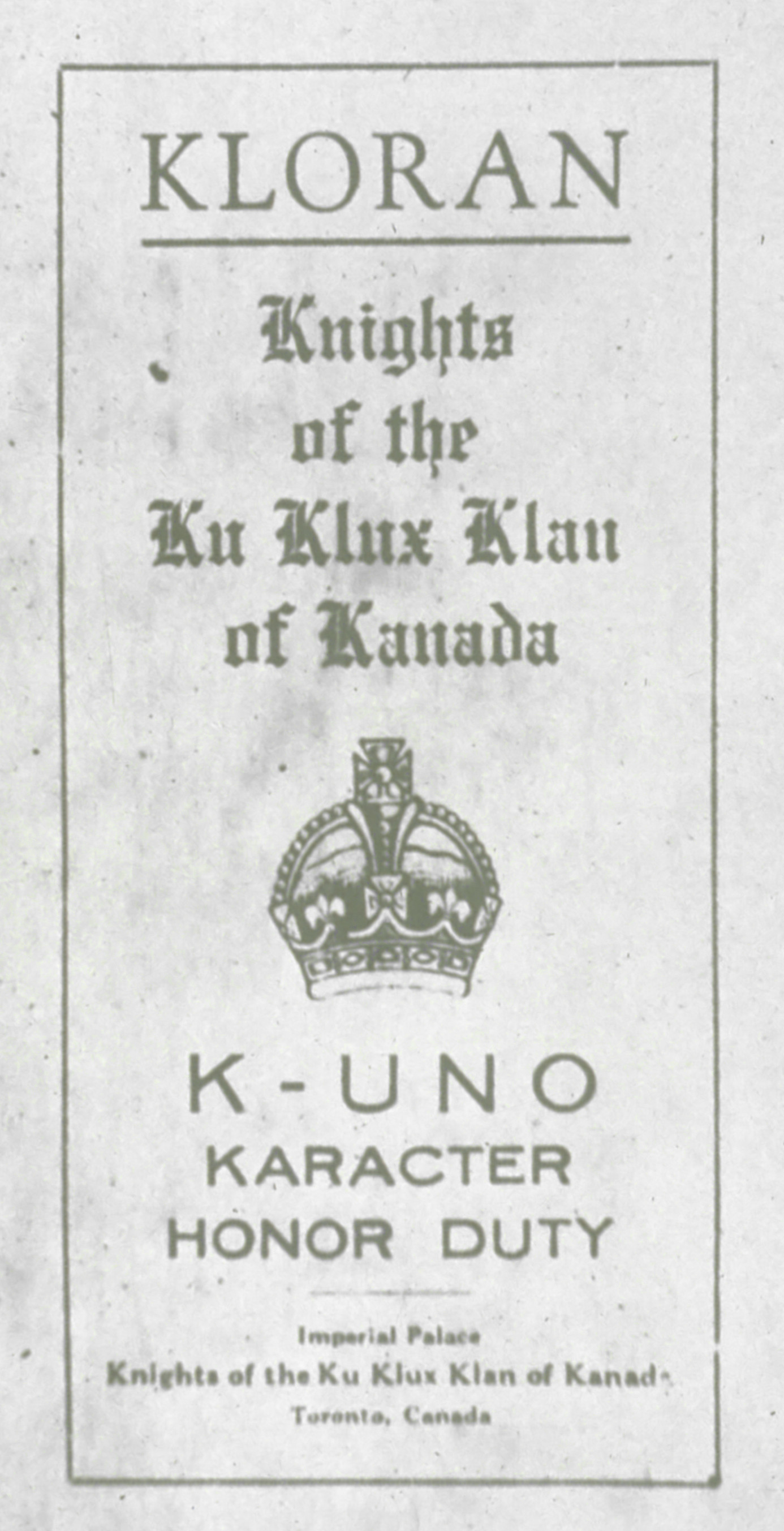 Kloran of the Ku Klux Klan of Kanada Image of the cover of a book entitled "Kloran - Knights of the Ku Klux Klan of Kanada - K-Uno Karacter Honor Duty - Imperial Palace Knights of the Ku Klux Klan of Kanada, Toronto, Canada" - "Swamped on one hand by ridicule and on the other by revulsion because of the Barrie outrage, the Klan dropped in membership and from public view in Ontario. - Frontpiece of the Kloran (official rules) Knights of the Ku Klux Klan of Kanada. Copy on microfilm, University of Saskatchewan, Saskatoon, Saskatchewan." Edited by Mindmatrix from original: perspective shift, crop, and hue desaturation of green and cyan.